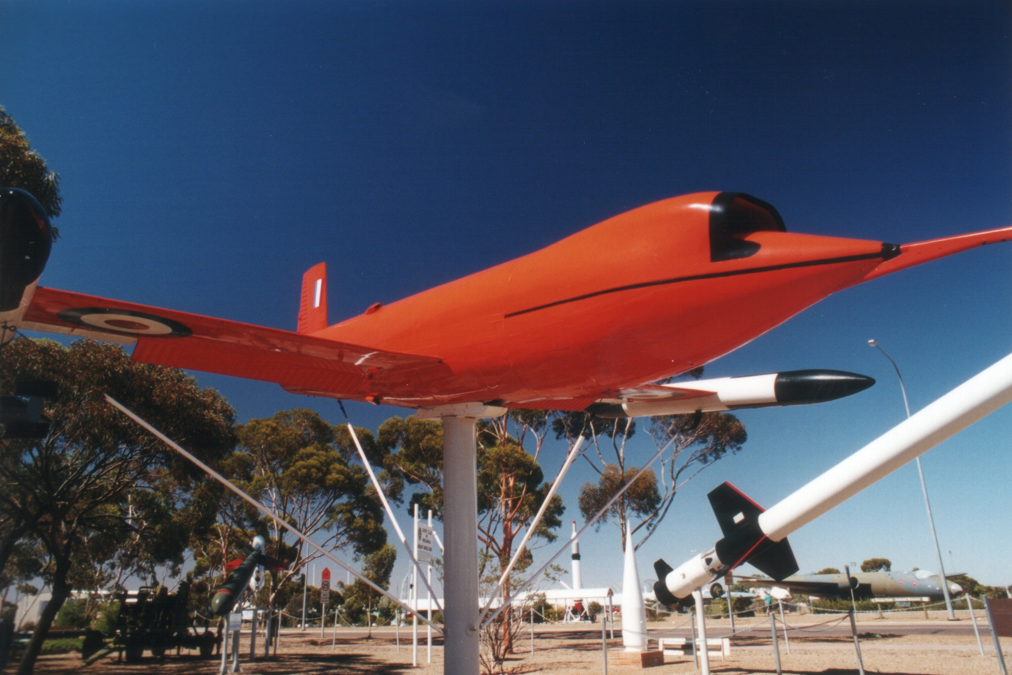 GAF Jindivik target drone - on display at Woomera, South Australia